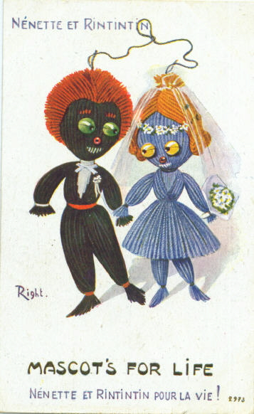 Nenette and Rintintin, Mascots for life